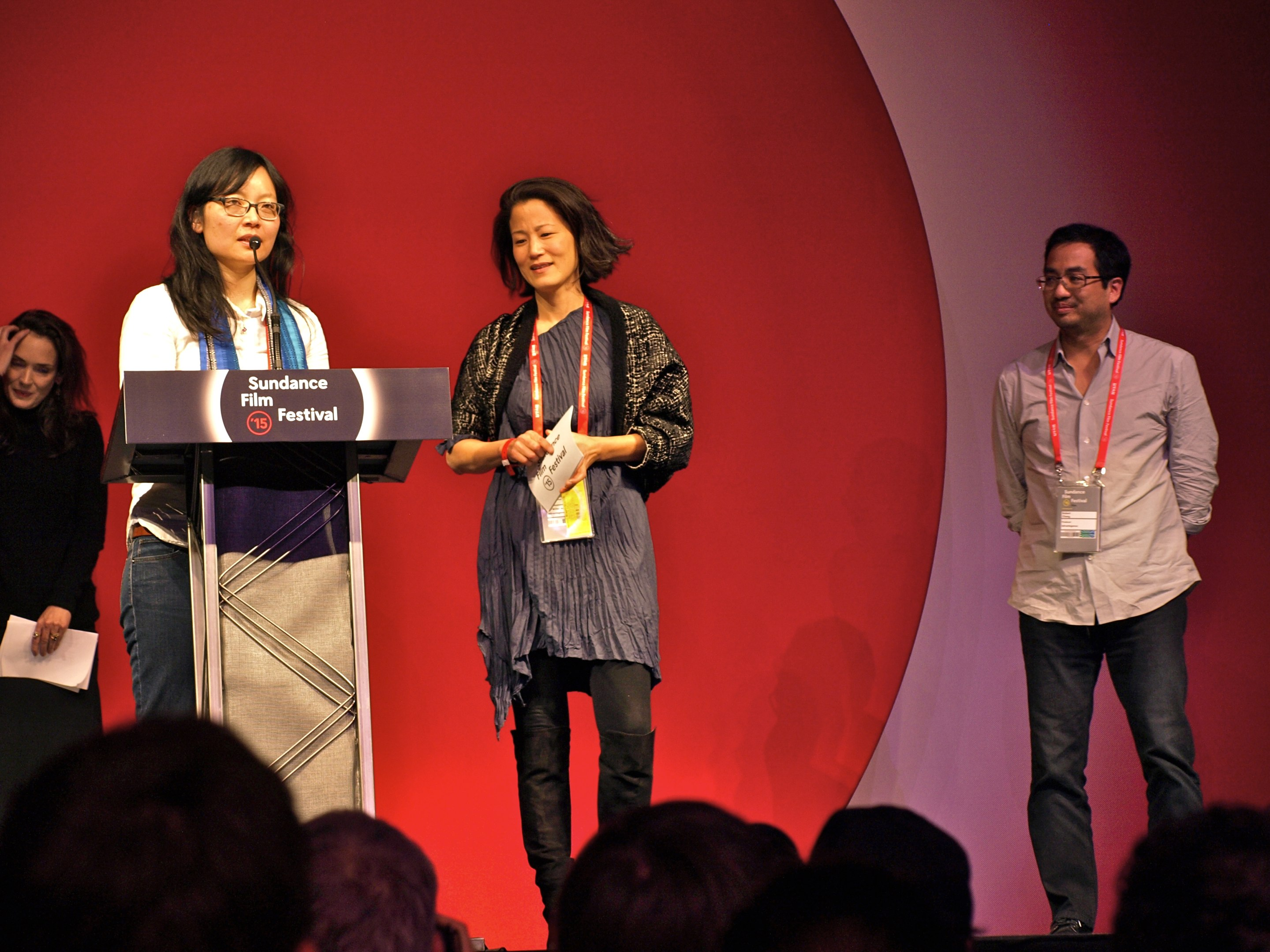 Jennifer Phang and Jacqueline Kim Winner for U.S. Dramatic Special Jury Award for Collaborate Vision: Advantageous at Sundance 2015